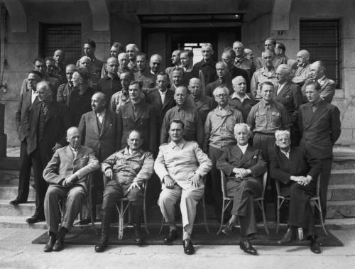 The "Class of 45"; the prisoners of Central Continental Prisoner of War Enclosure No. 32, code-named Ashcan, an Allied prisoner-of-war camp in the Palace Hotel of Mondorf-les-Bains, Luxembourg, housing the leading Nazi prisoners of war. At the center of the bottom row, Hermann Göring. Identification of the prisoners in the Luxembourgian Wikipedia.